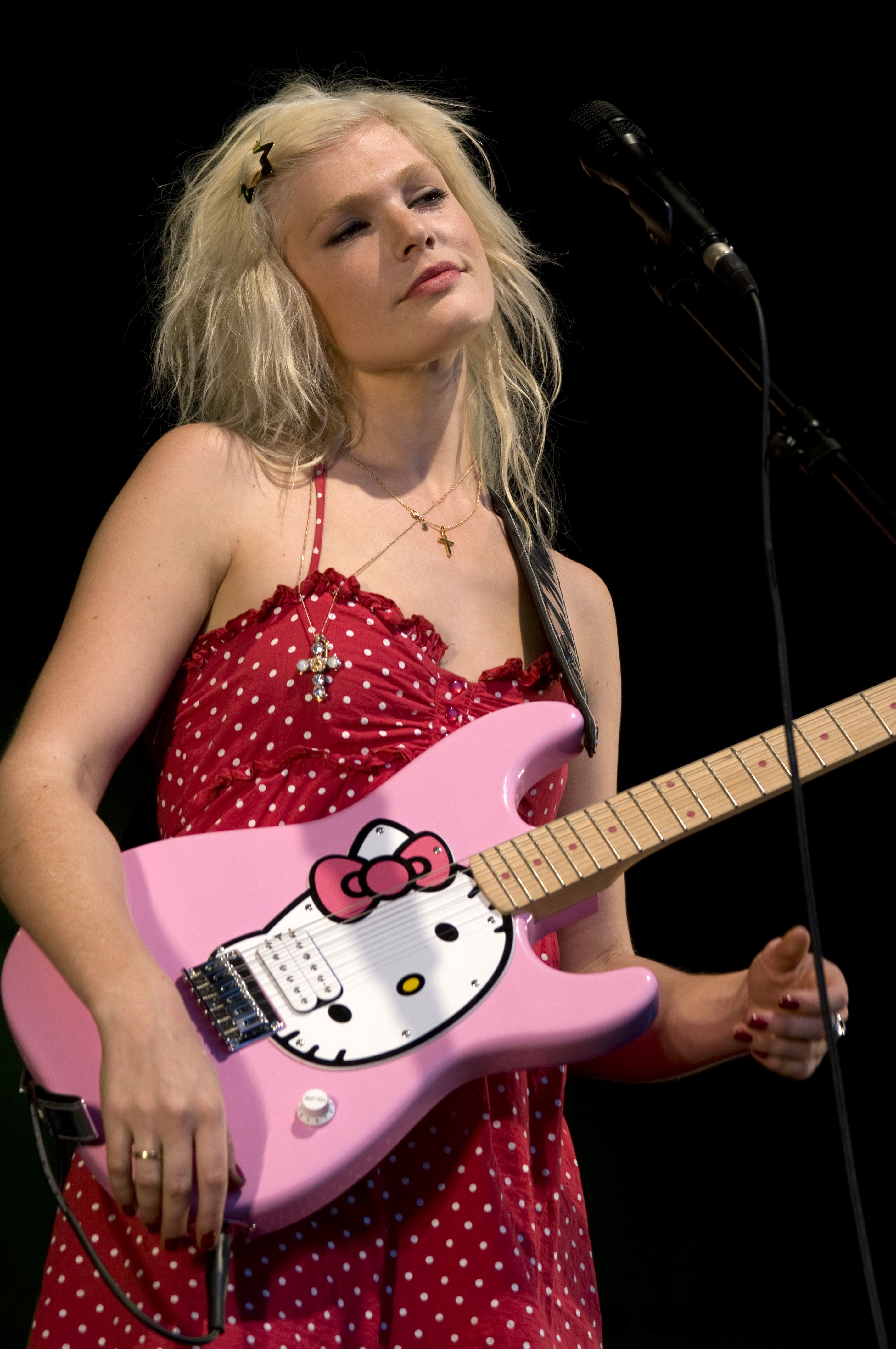 Micky Green live at Aux Zarbs festival 2008 (Auxerre, France).